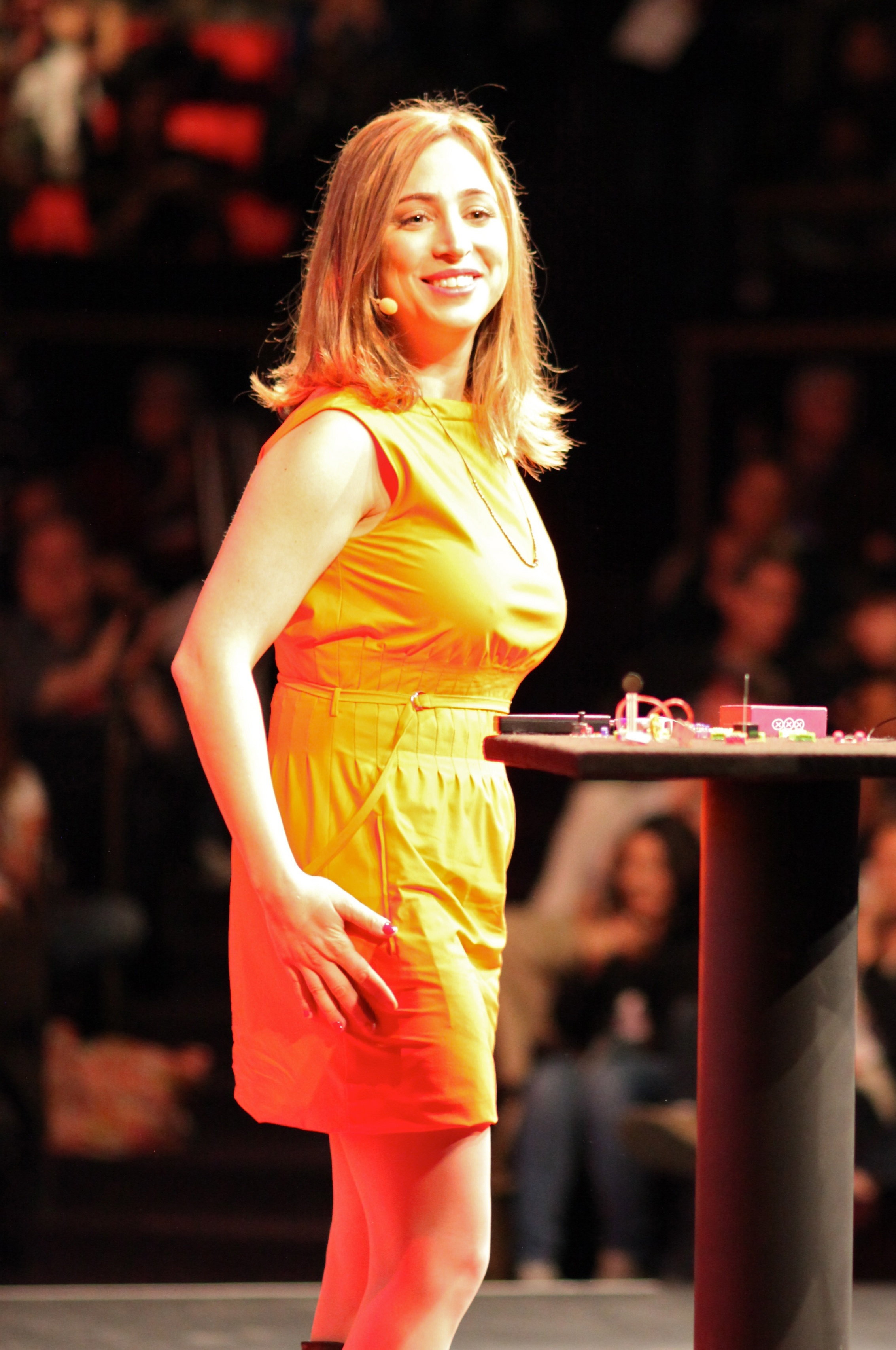 Ayah Bdeir presenting littleBits at a TED conference.